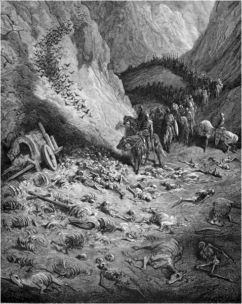 Crusaders discovers dead pilgrims of Peter the Hermit